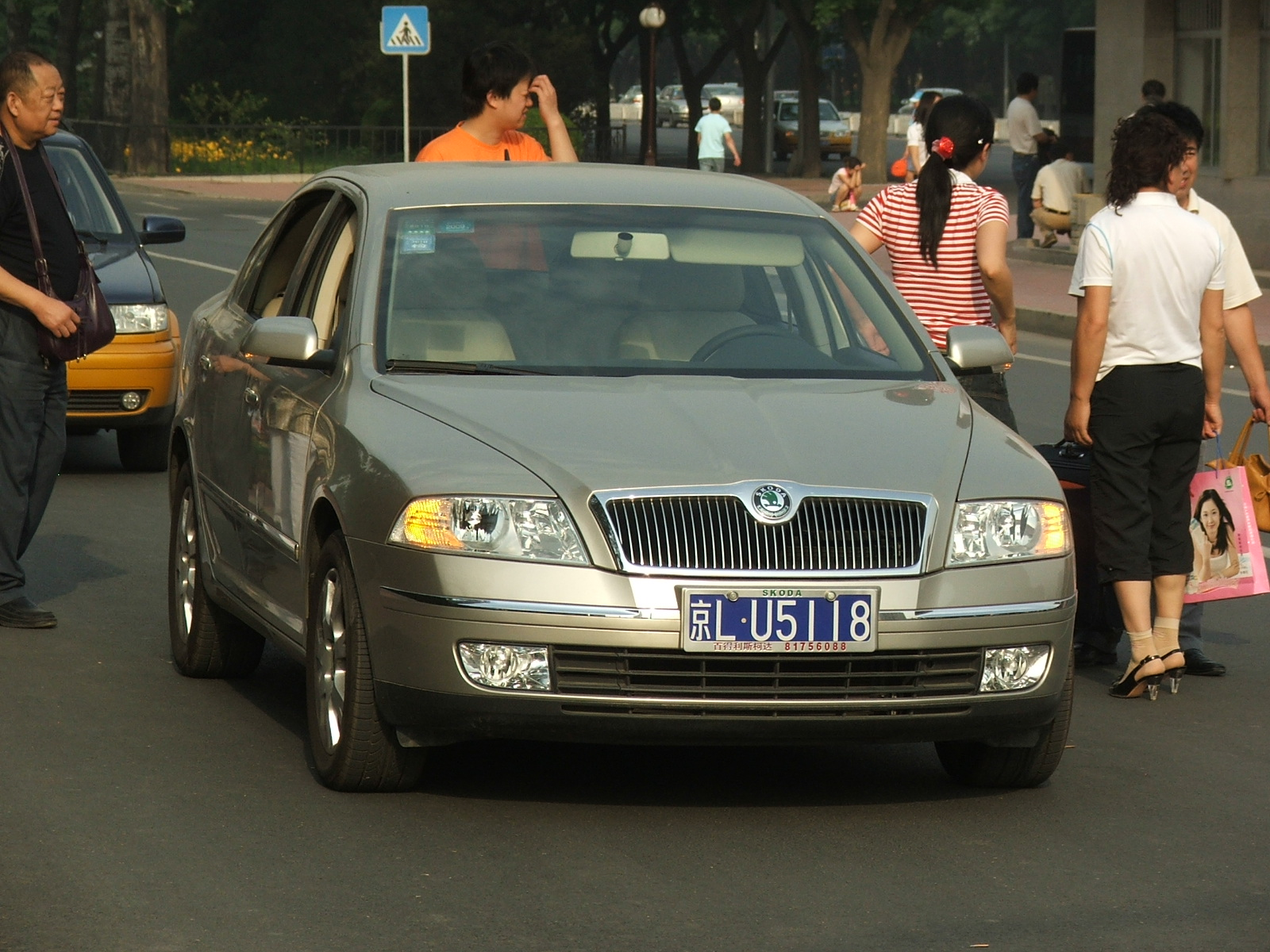 Škoda Octavia in the streets of Beijing, China.